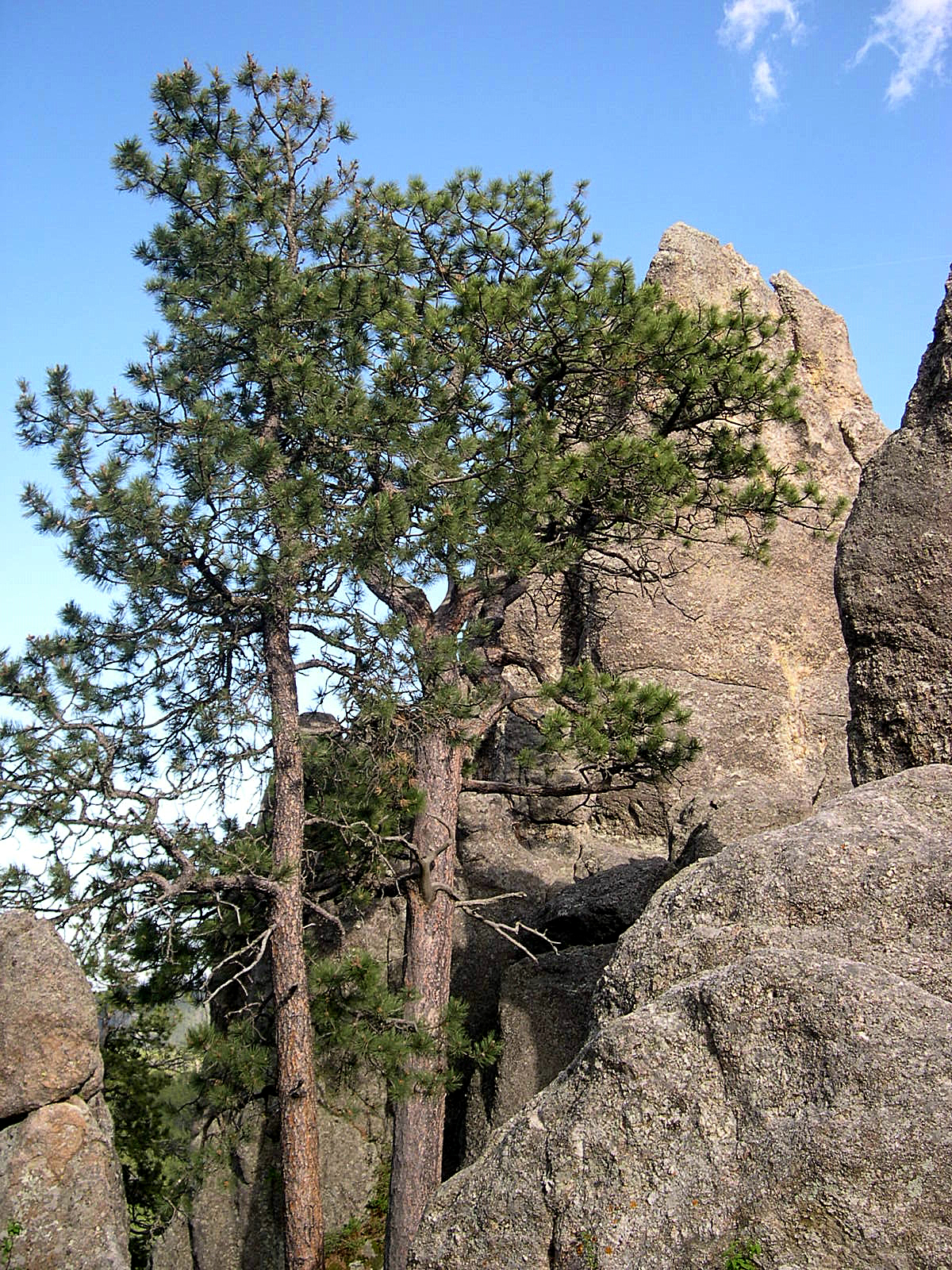 Pinus ponderosa subsp. scopulorum, Custer State Park, Pahá Sápa (Black Hills), South Dakota, USA.